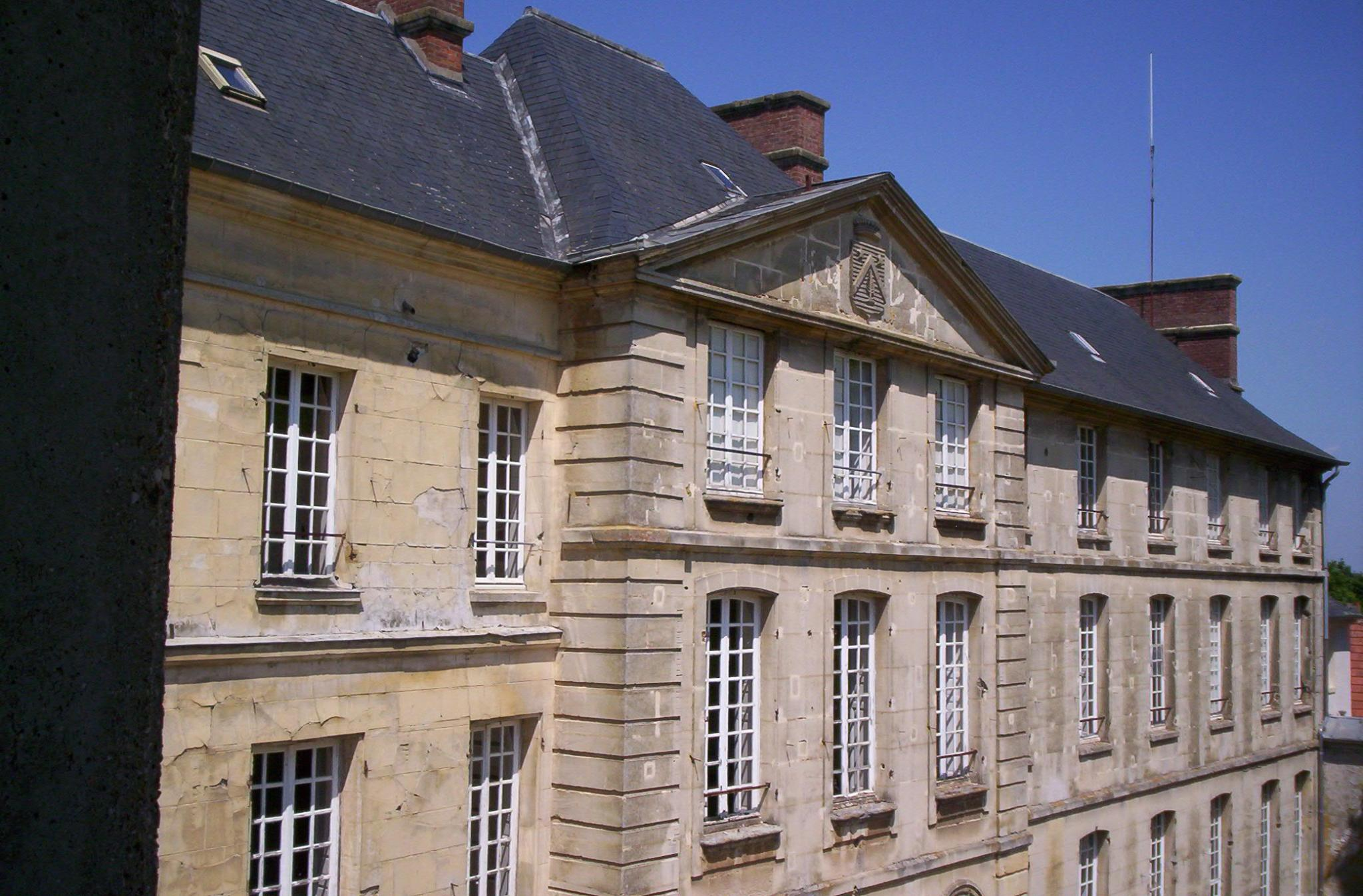 the castle le chateau el castillo